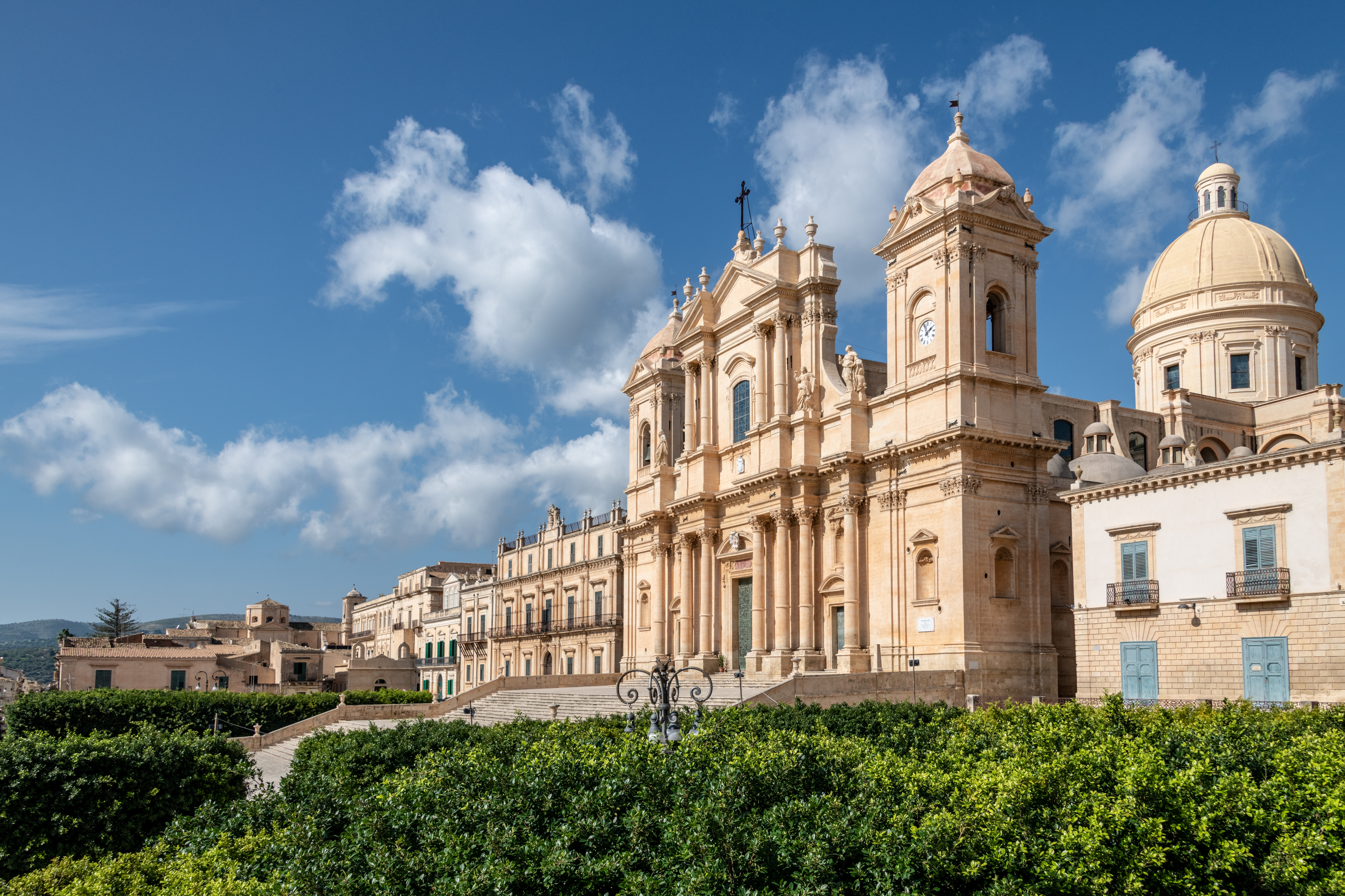 Cathedral of Noto, Sicily